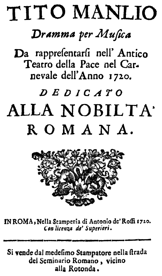 Tito Manlio - title page of the libretto - Rome 1720